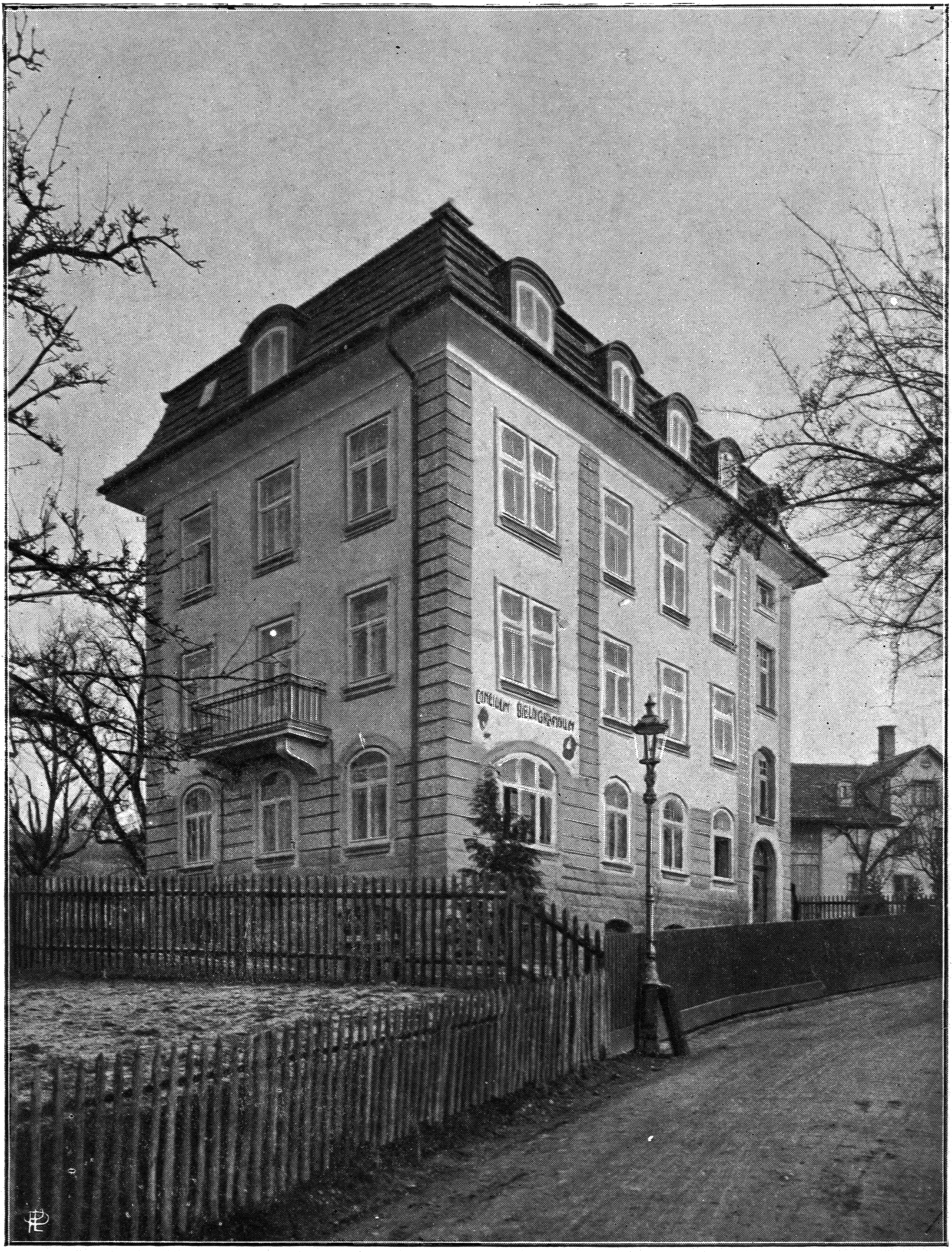 The New Building of the Concilium Bibliographicum, Hofstrasse 49, Zurich